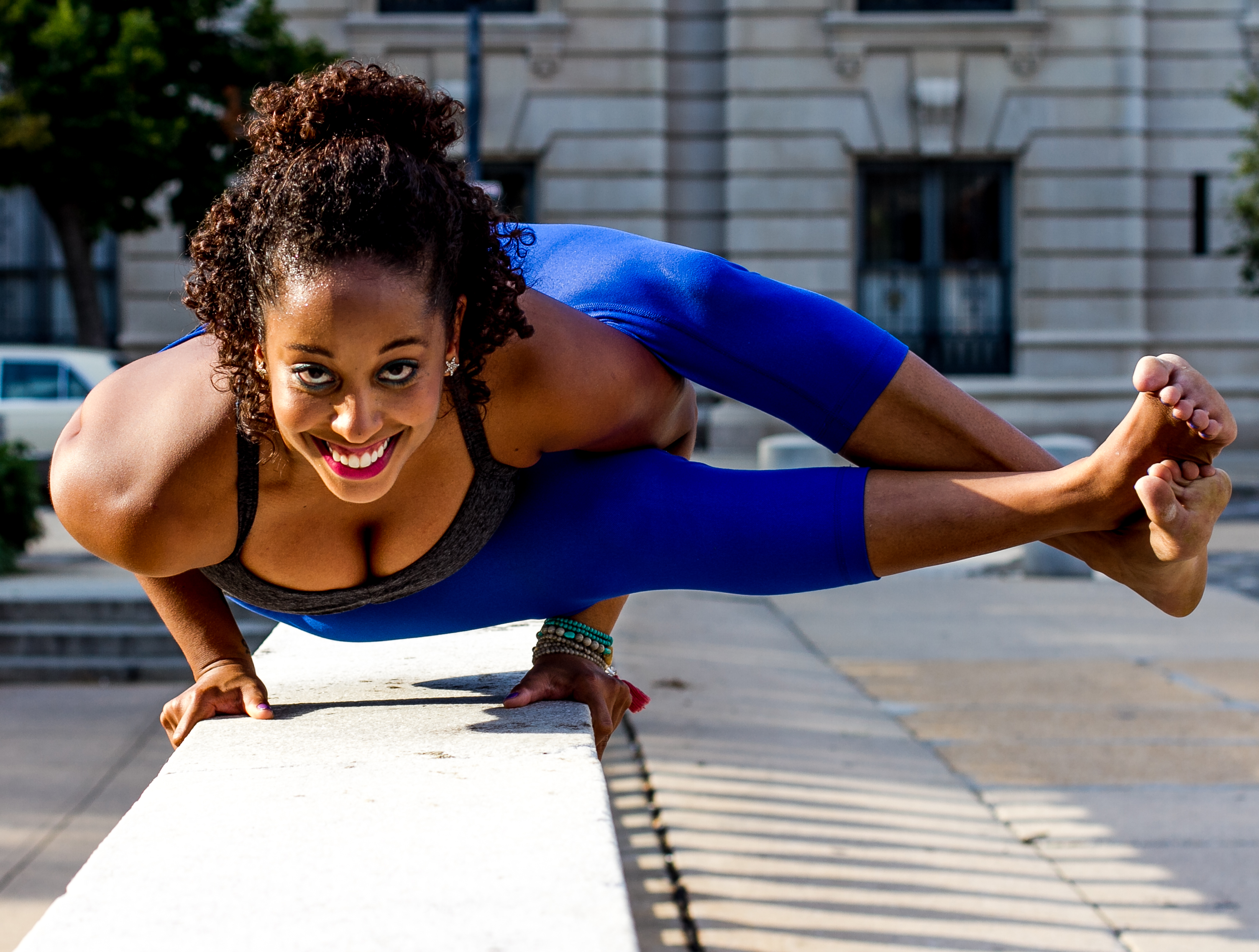 Shots with a couple Yogi's